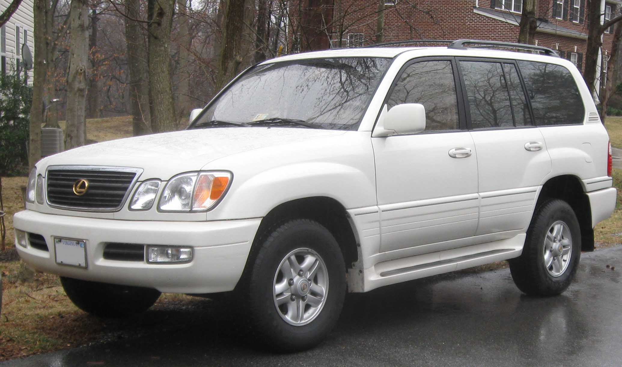 Lexus LX470 photographed in Fort Washington, Maryland, USA.